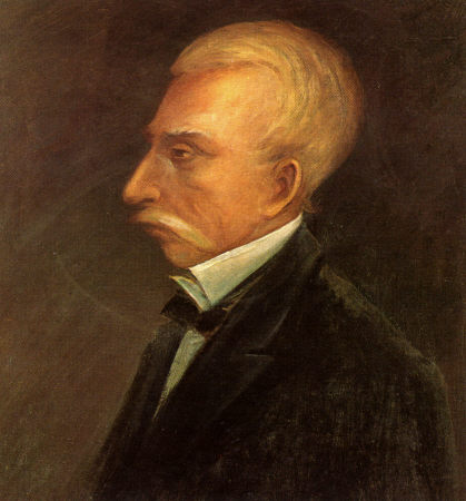 Dimitrios Valvis, greek lawyer and prime minister